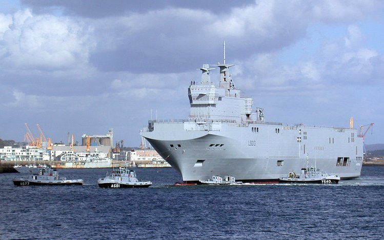 (no responsibility is taken for the correctness of this translation): Launching of the Projection and Command vessel Mistral in Brest (6th of October 2004)